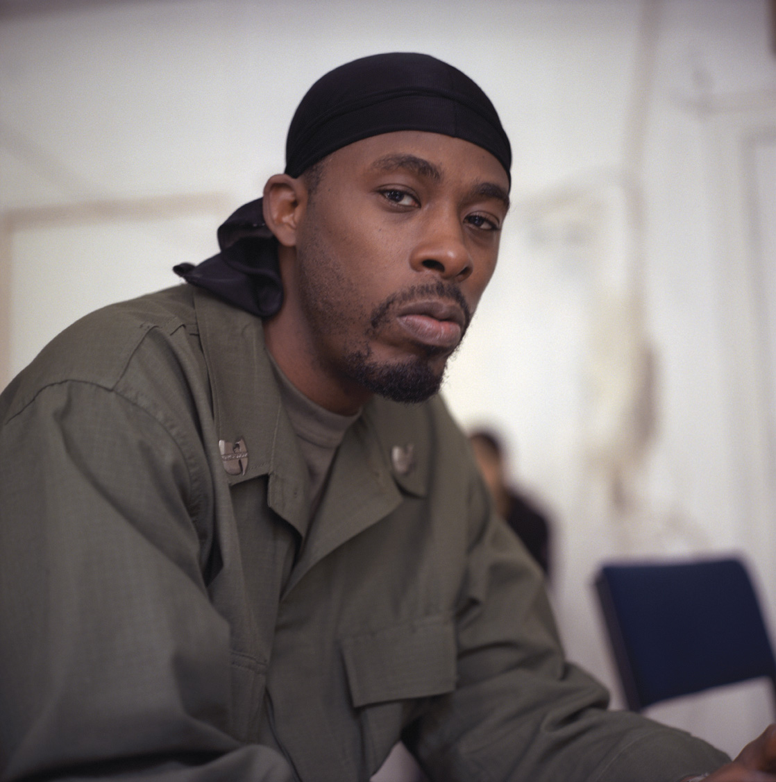 Germany 2000